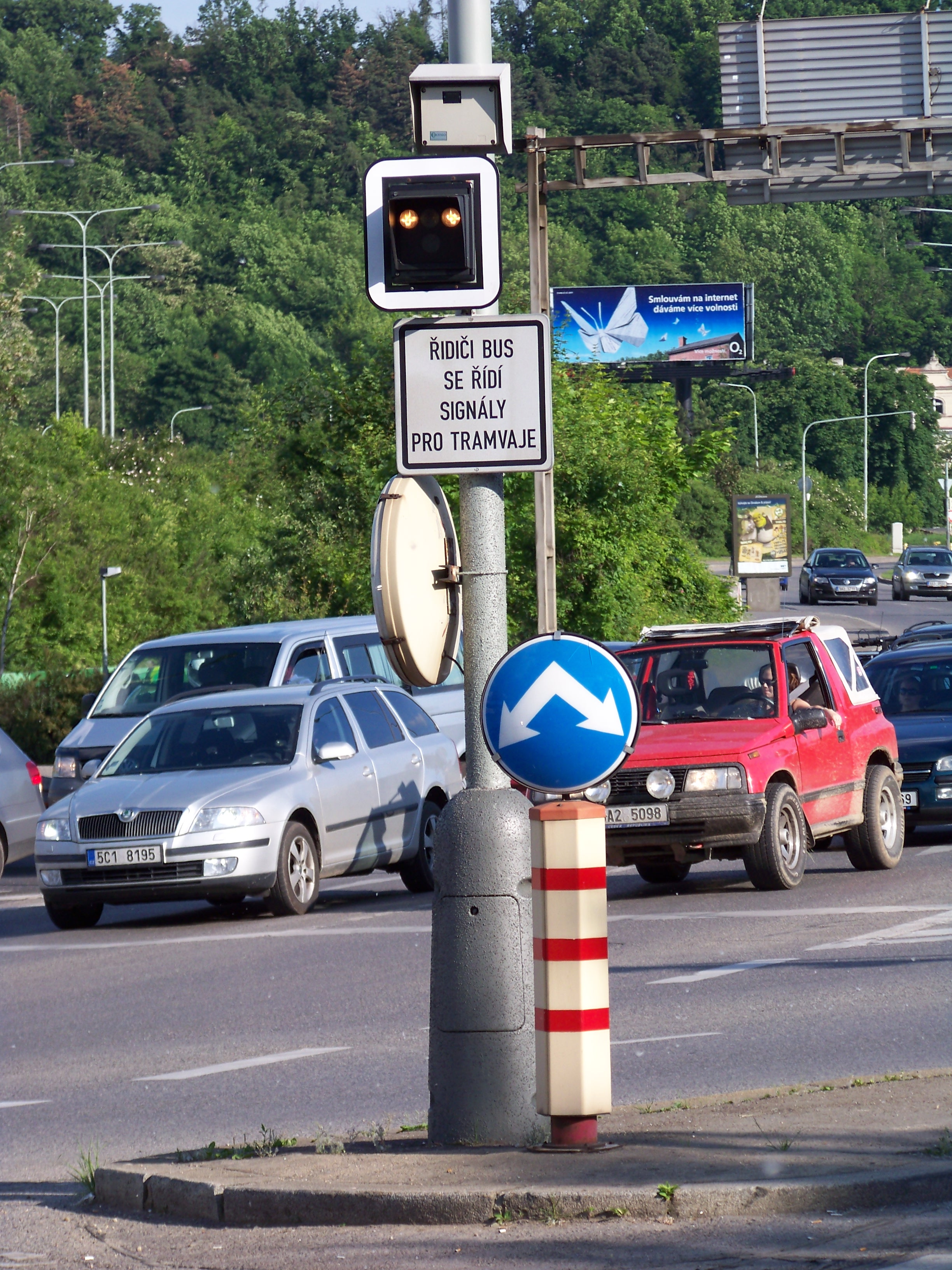 Braník, Prague, the Czech Republic. Modřanská street, a bus lane signal.